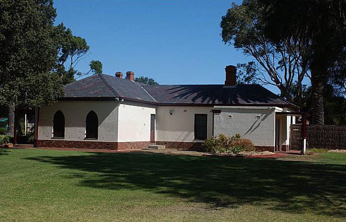 The Grange – Home of Charles Sturt (1795-1869), one of Australia's premier explorers, who began opening up the interior of Australia. He first determined that South Australia would be ideal for colonization and in England, a society fostered colonization on the basis of no convicts. South Australia was never settled by convicts. Grange is a suburb of Adelaide, South Australia